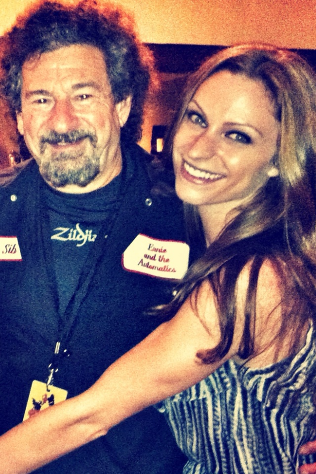 Sib Hashian and Lauren Hashian at the Los Angeles Greek Theatre.